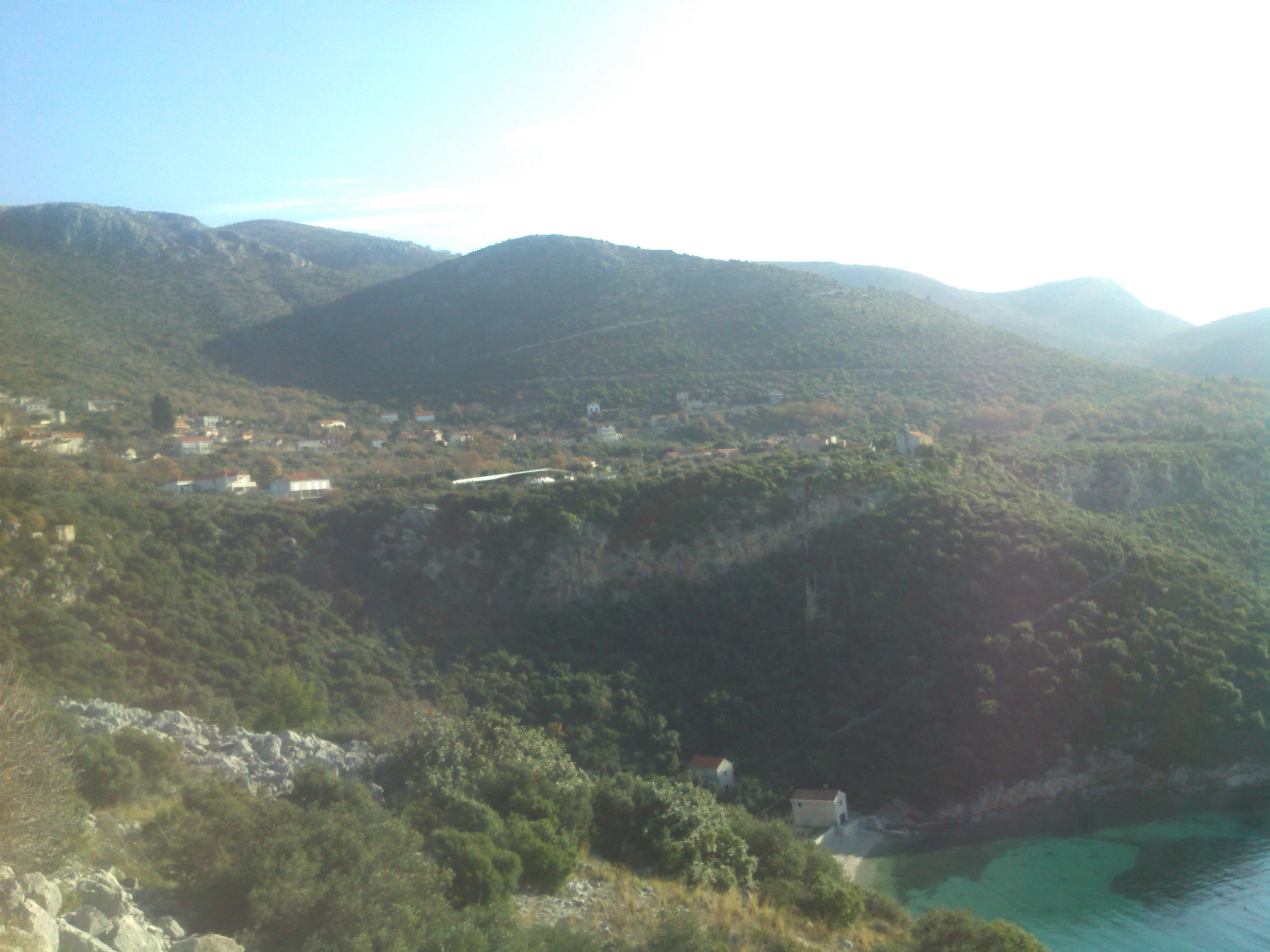 Brsečine